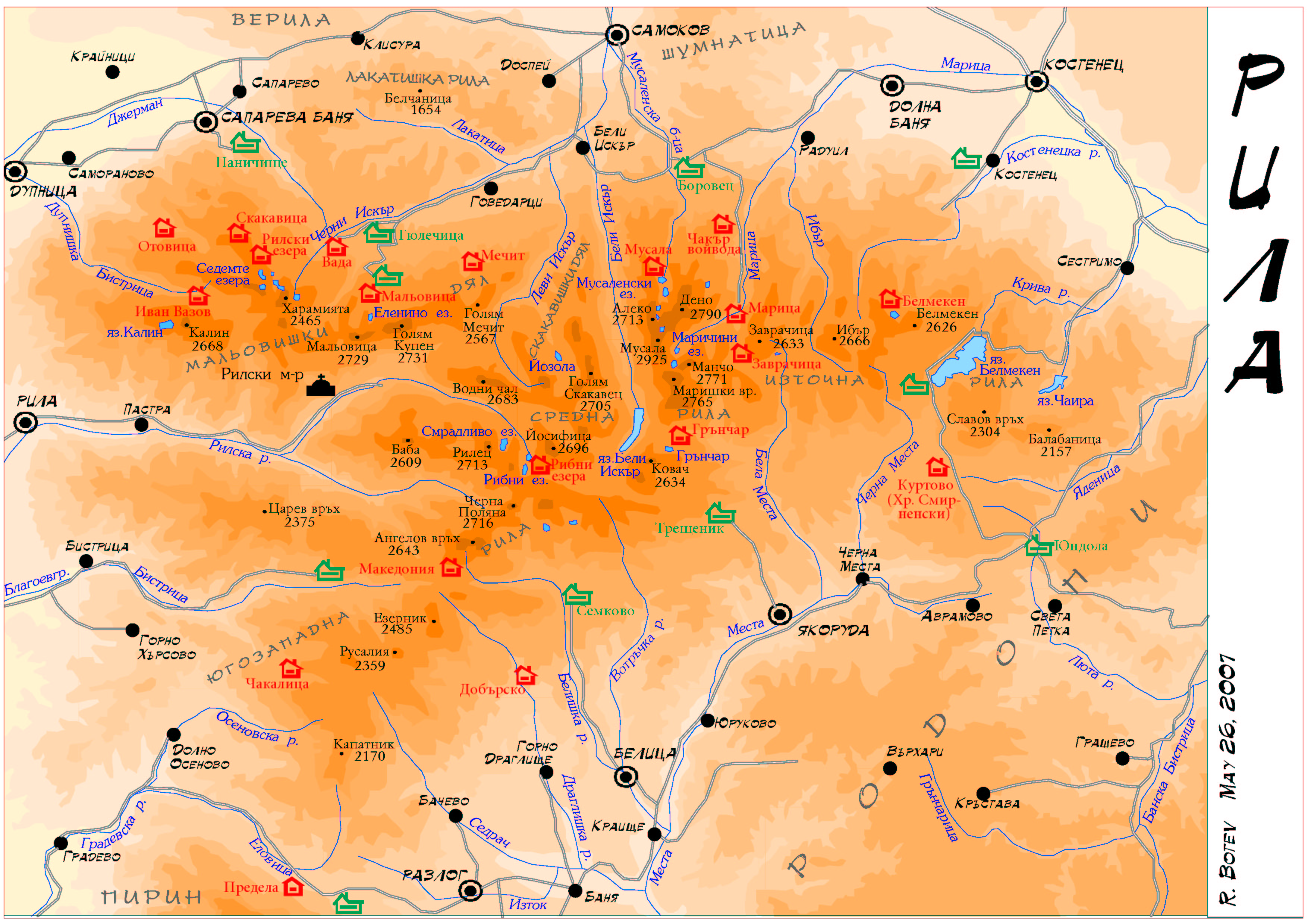 Map of Rila